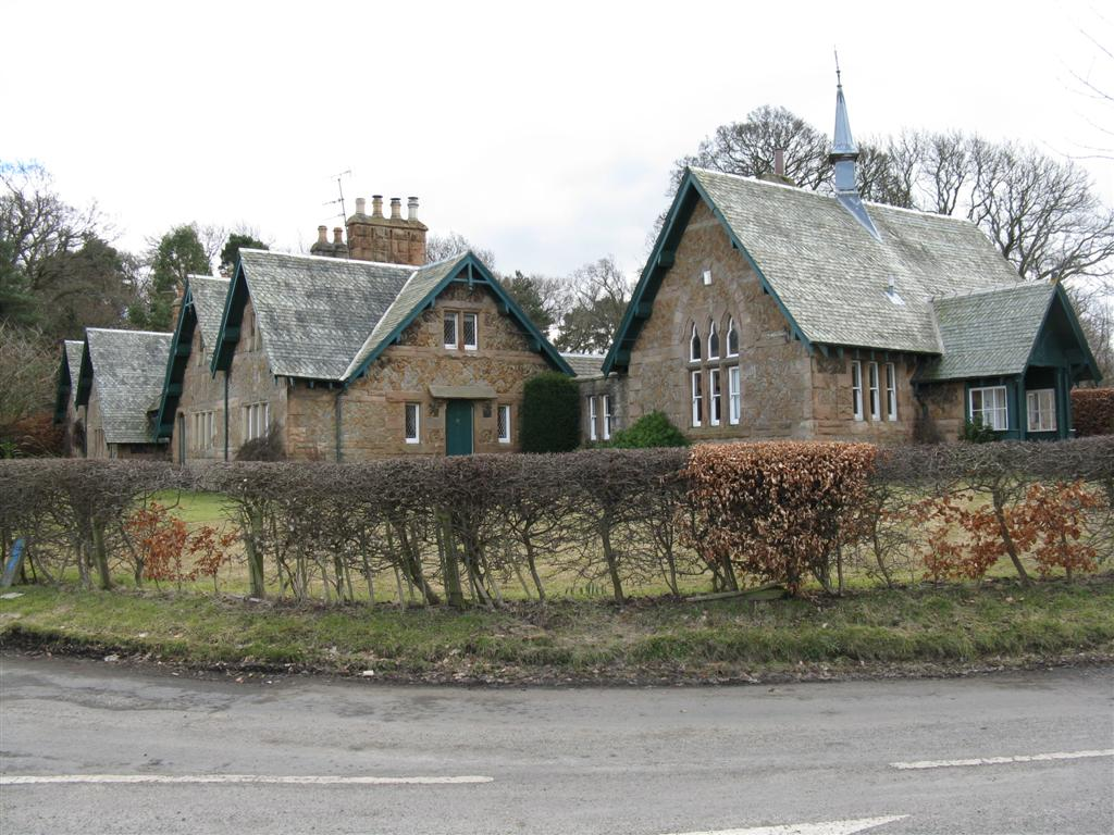 Kingscavil Cottages At the junction of the Linlithgow-Winchburgh road and that from Ochiltree.